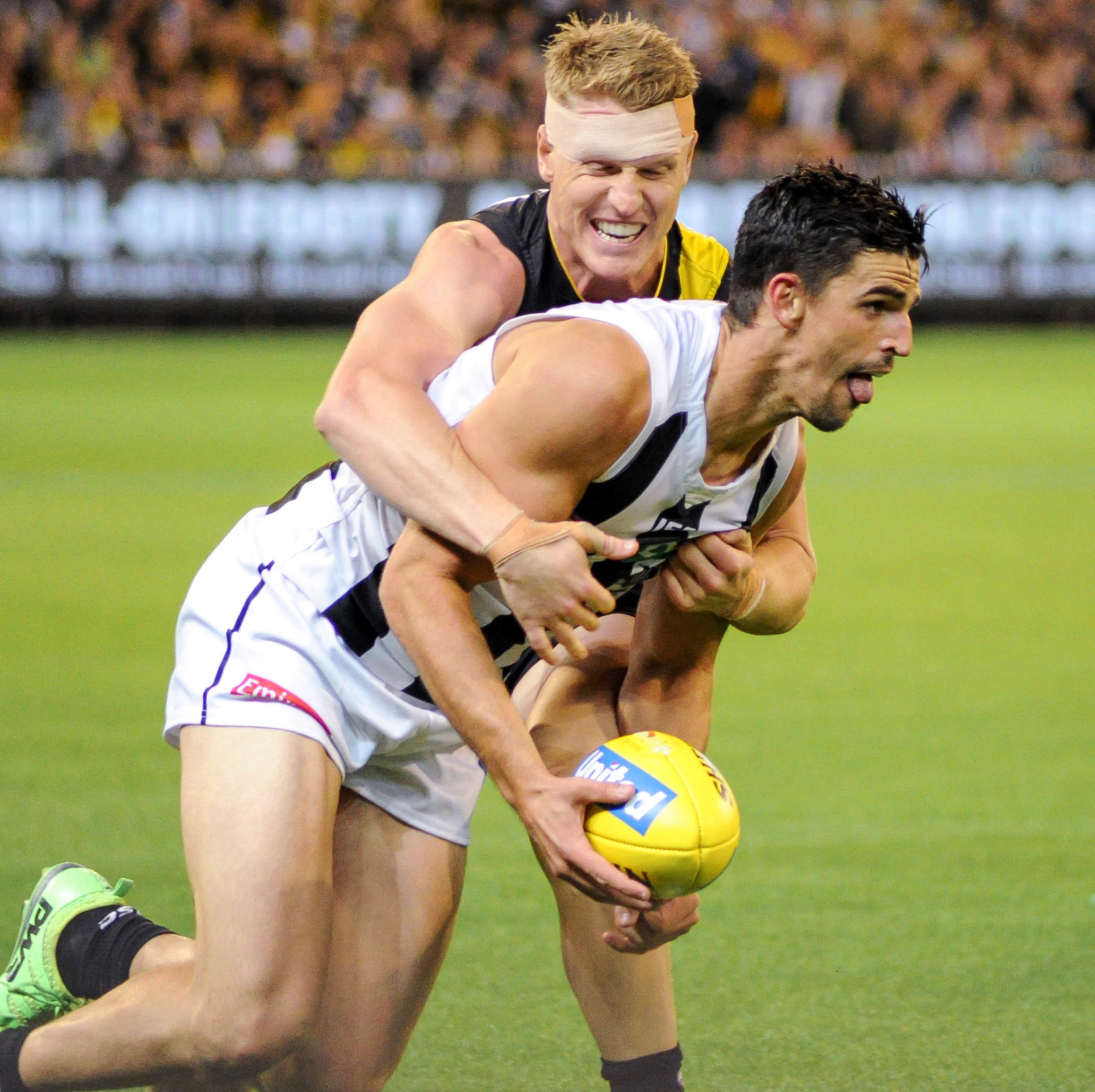 Josh Caddy tackling Scott Pendlebury during the AFL round two match between Richmond and Collingwood on 30 March 2017 at the Melbourne Cricket Ground in Melbourne, Victoria.